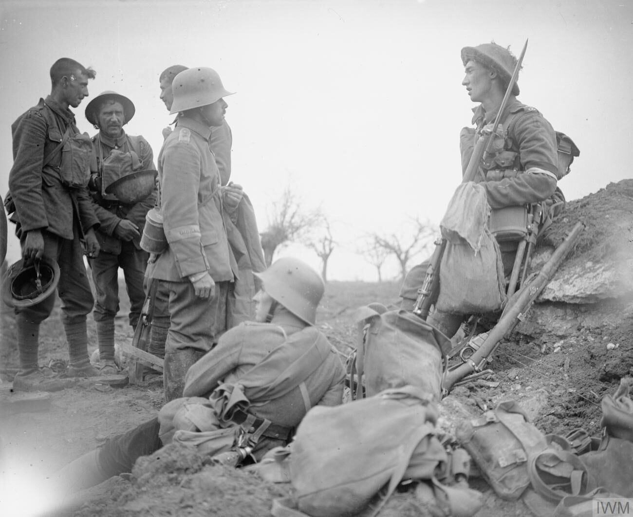 The Battle of Passchendaele, July-november 1917 Battle of Pilckem Ridge. German prisoners waiting to be interrogated. Pilckem, 31 July 1917. Note a Gibraltar cuff-title worn by a German POW. The British soldiers on the right are probably servicemen of the Irish Guards.